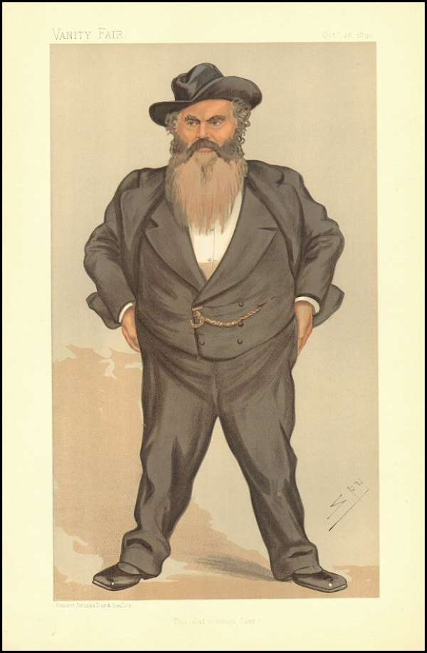 Statesmen No.623: Caricature of Mr W Allan MP. Caption reads: "The Gateshead Giant"